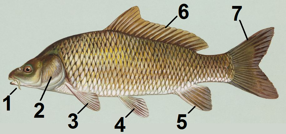 Summary Common carp (Cyprinus carpio). Public domain image from USFWS National Image Library. Created by Duane Raver. Licensing This image or recording is the work of a U.S. Fish and Wildlife Service employee, taken or made as part of that person's official duties. As a work of the U.S. federal government, the image is in the public domain. For more information, see the Fish and Wildlife Service copyright policy.